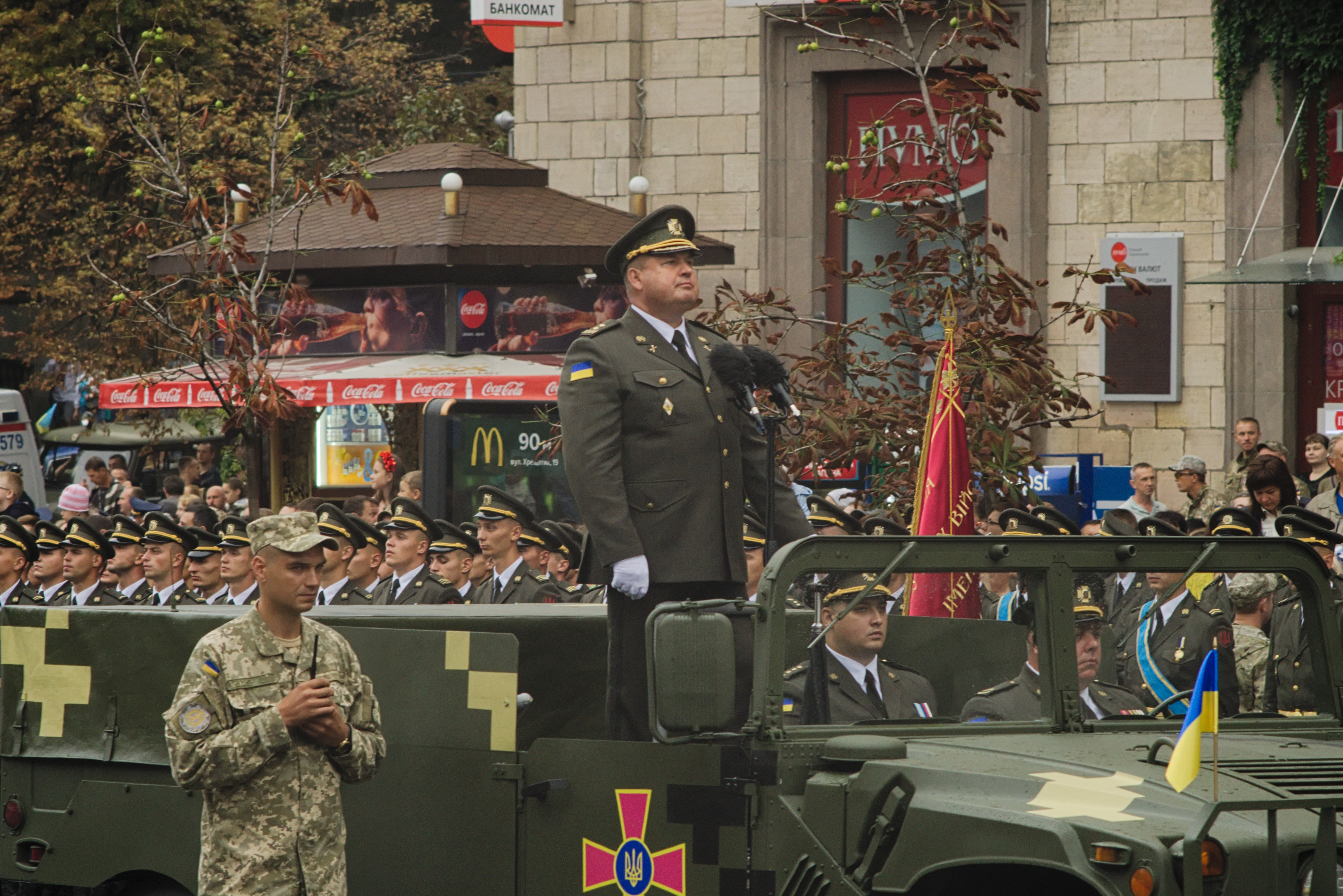 Commander Ukrainian Ground Forces Serhiy Popko